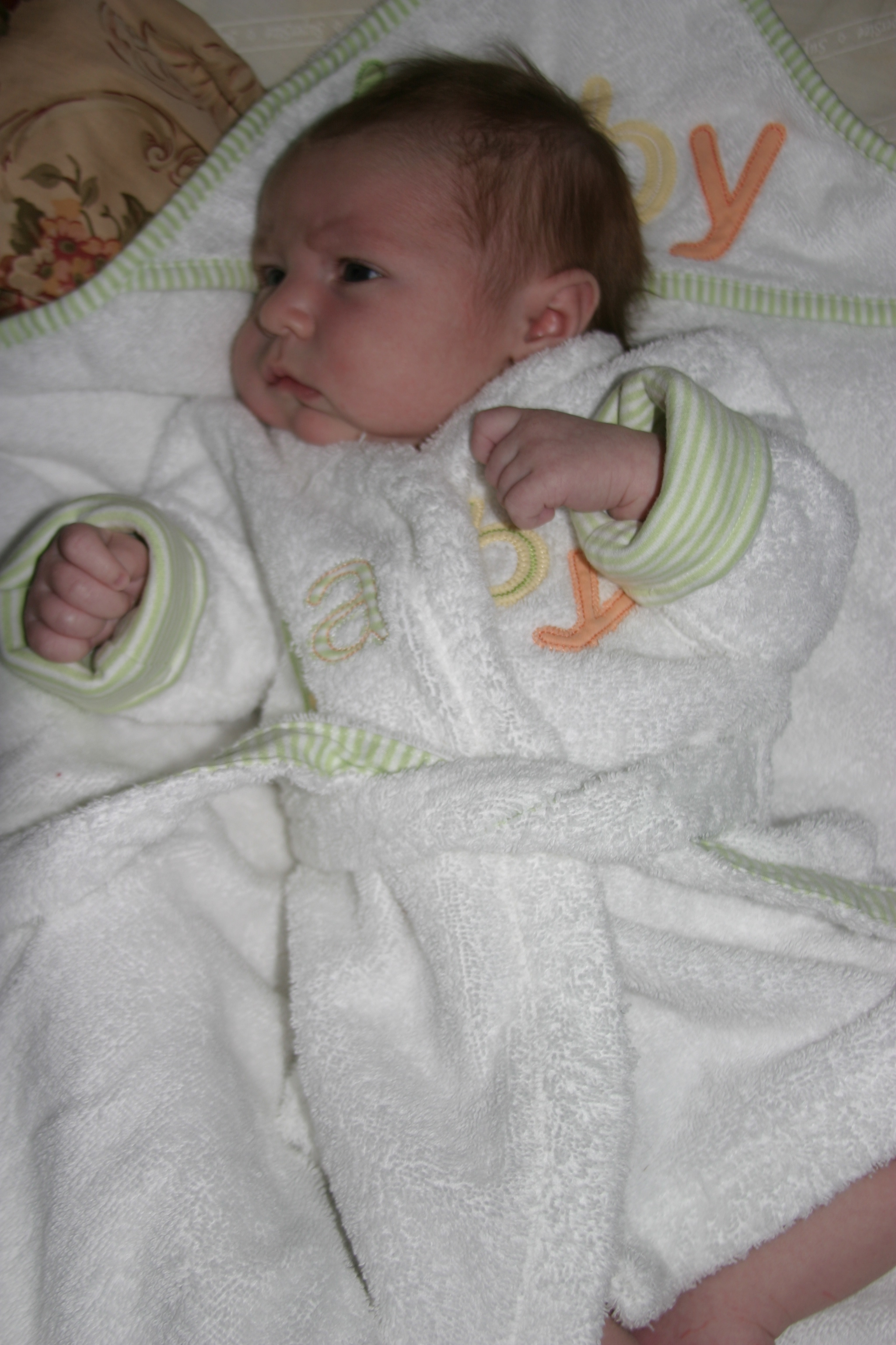 baby in a bathrobe